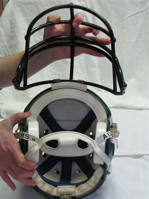 Football helmet and face mask